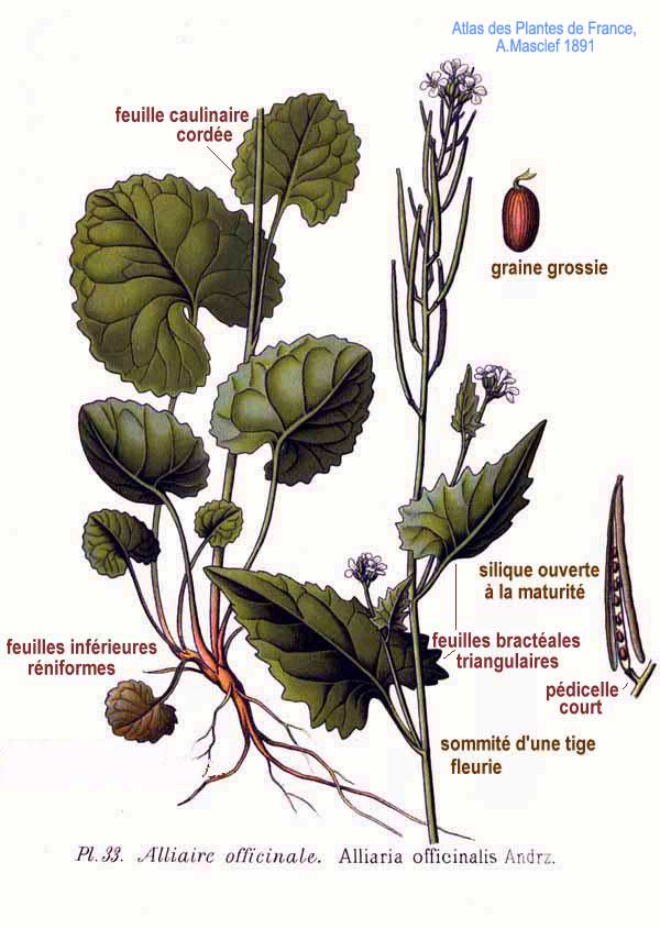 Alliaria officinalis Andrz.